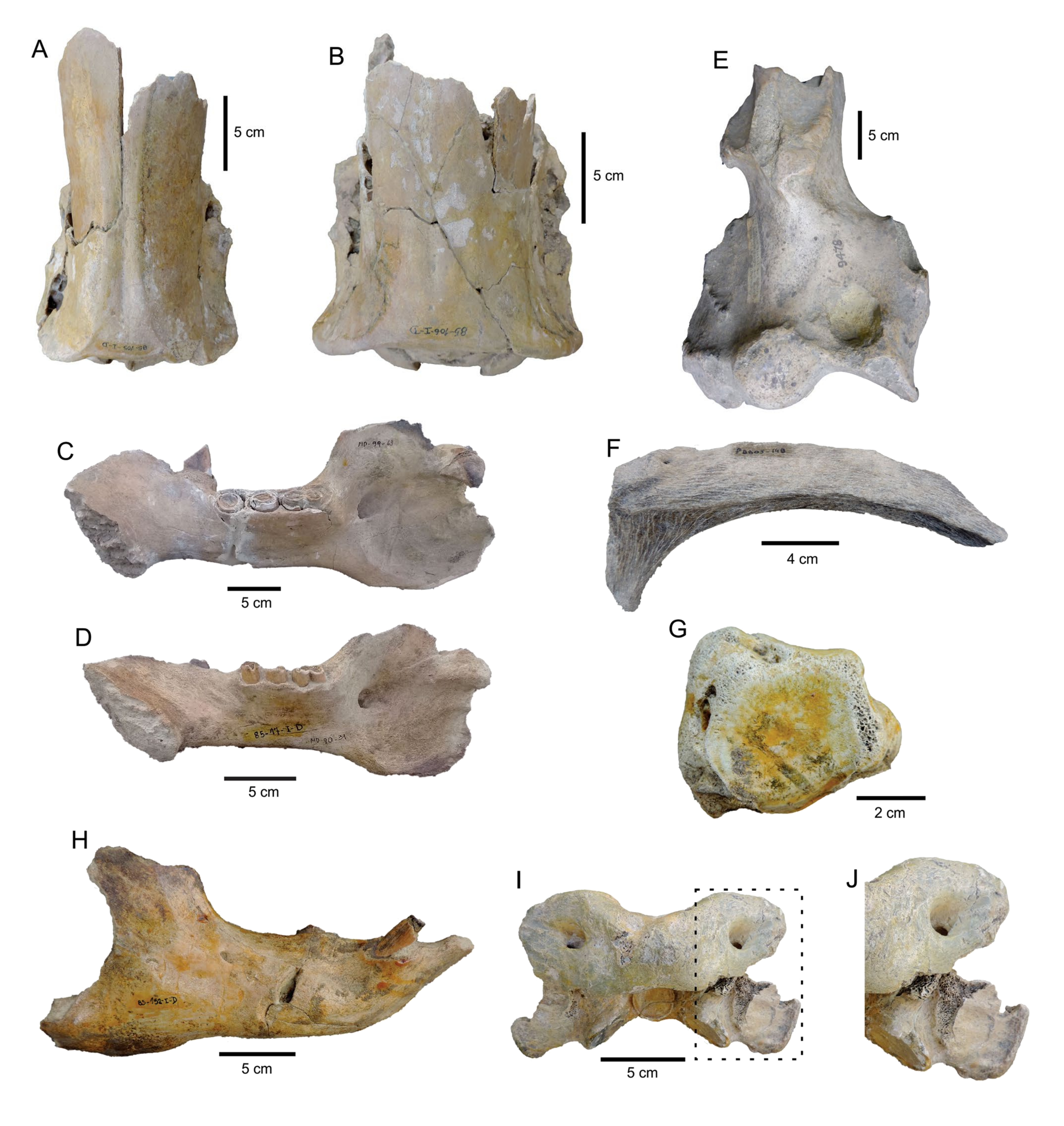 Lestodon, taphonomic features of Lestodon armatus specimens from Playa del Barco site, Argentina, Upper Pleistocene. (A) MD-PDB-85-105, skull (dorsal view) with the anterior portion broken. (B) MD-PDB-85-106, skull (dorsal view) with the anterior portion broken. (C) MD-PDB-99-63, right hemimandible with complete dental series, lacking part of the posterior portion. (D) MD-PDB-85-17, right hemimandible with complete dental series, lacking part of the posterior portion. (E) MACN-PV-9478, distal portion of humerus showing a transversal fracture. (F) MD-PDB-05-148, fragment of rib with signs of weathering (slight splitting). (G) MD-PDB-85-150, metapodial with signs of abrasion (slight rounding). (H) MD-PDB-85-152, right hemimandible with crenulated edges in the posterior border, related with predators/scavengers activity. (I) MD-PDB-85-176, atlas with crenulated edges in the transverse processes, related with predators/scavengers activity. (J) Details of the marks on the vertebra shown in I.